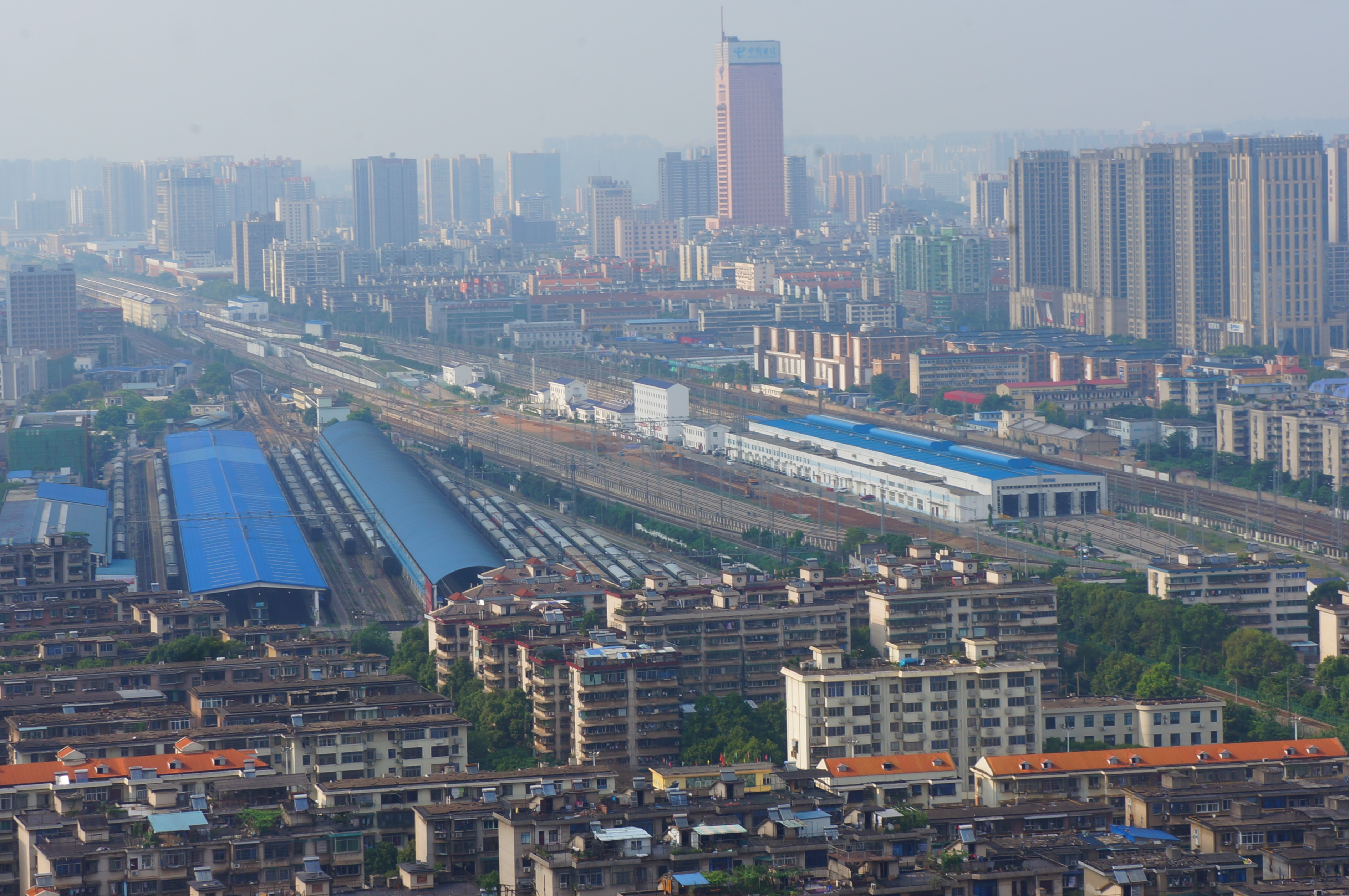 201906 Aerial View of Changsha Rolling Stock Depot and EMU Depot